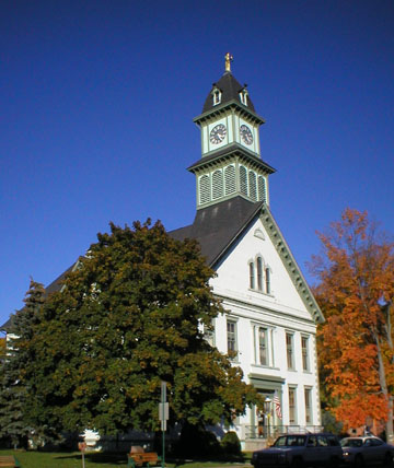 Photographed by Liz Heimel-Heck, family of origin in Coudersport, PA.